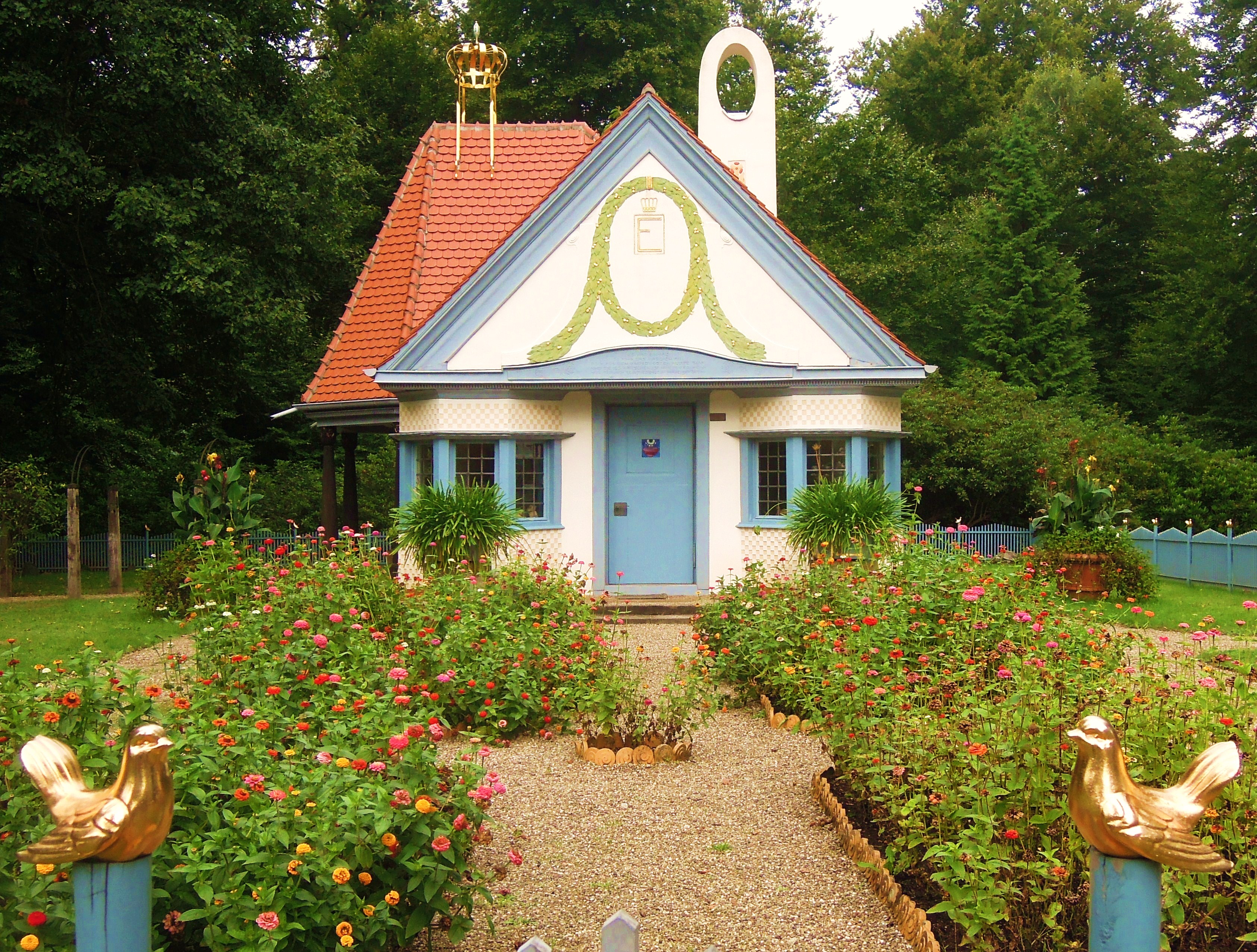 "Prinzessinenschloss", villa for Elisabeth von Hessen-Darmstadt (1895–1903), built by Vienna Secession Architect Joseph Maria Olbrich on the grounds of Schloss Wolfsgarten in Langen, Germany